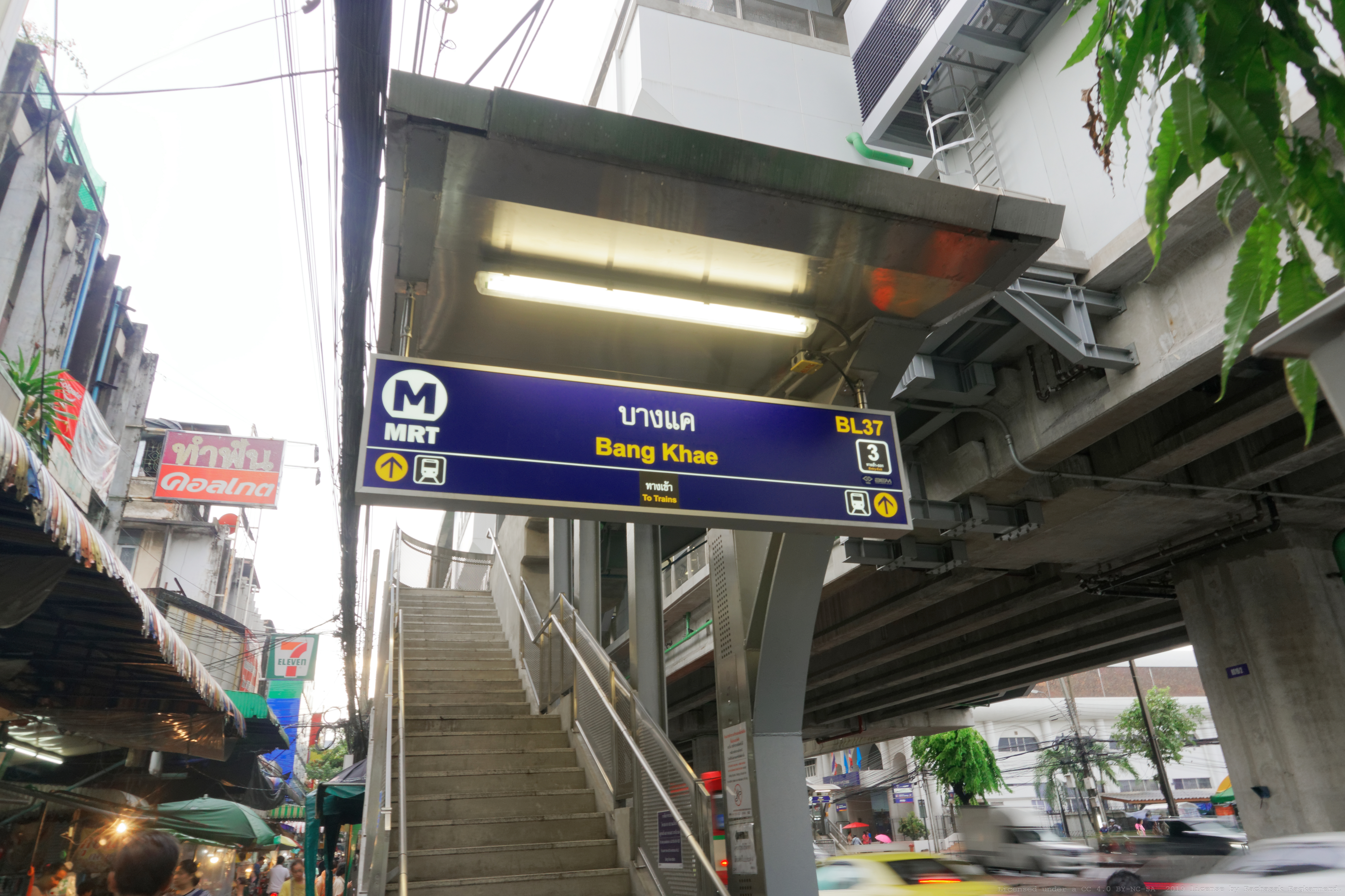 MRT Bangkae station: Exit #3